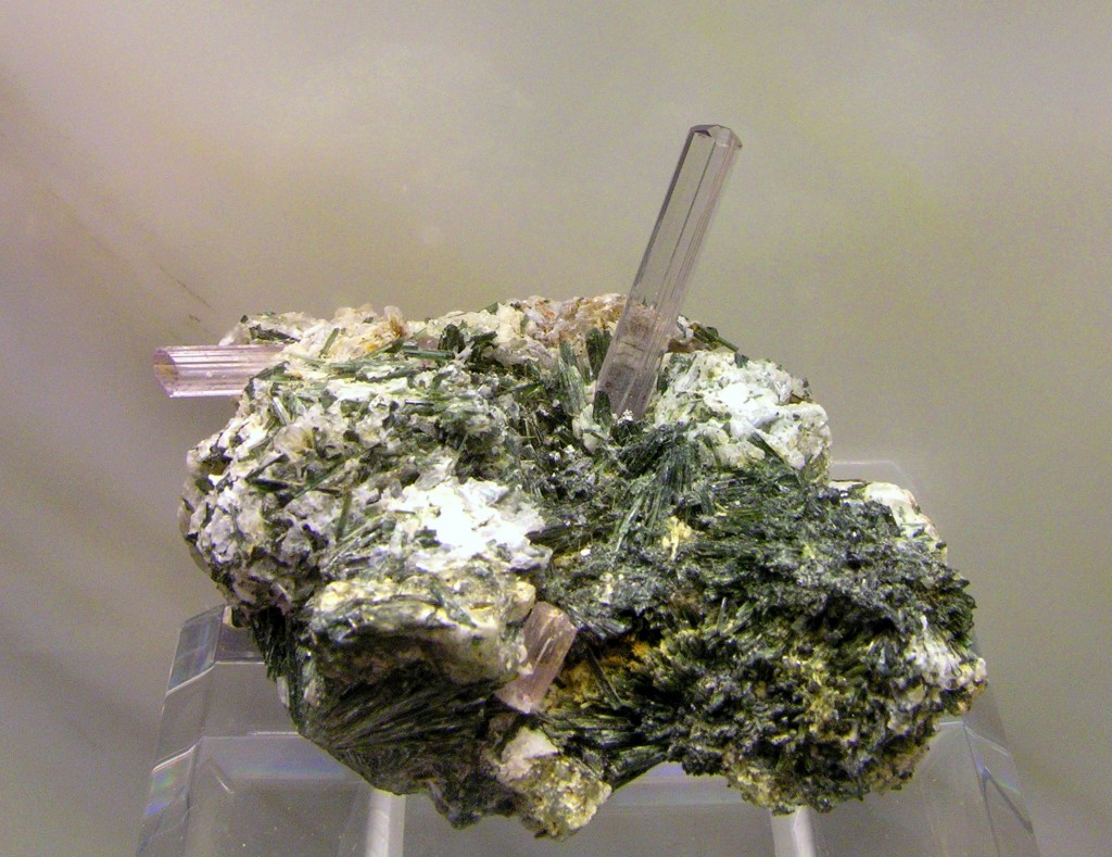 Scapolite Locality: Badakhshan (Badakshan; Badahsan) Province, Afghanistan Two gemmy violet scapolites perched on matrix with not well identified green little crystals. The longest crystal is cm 2,5